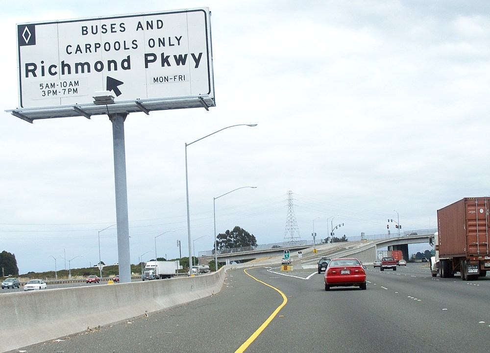 A left-side offramp from a high-occupancy vehicle lane on northbound Interstate 80 in Richmond.